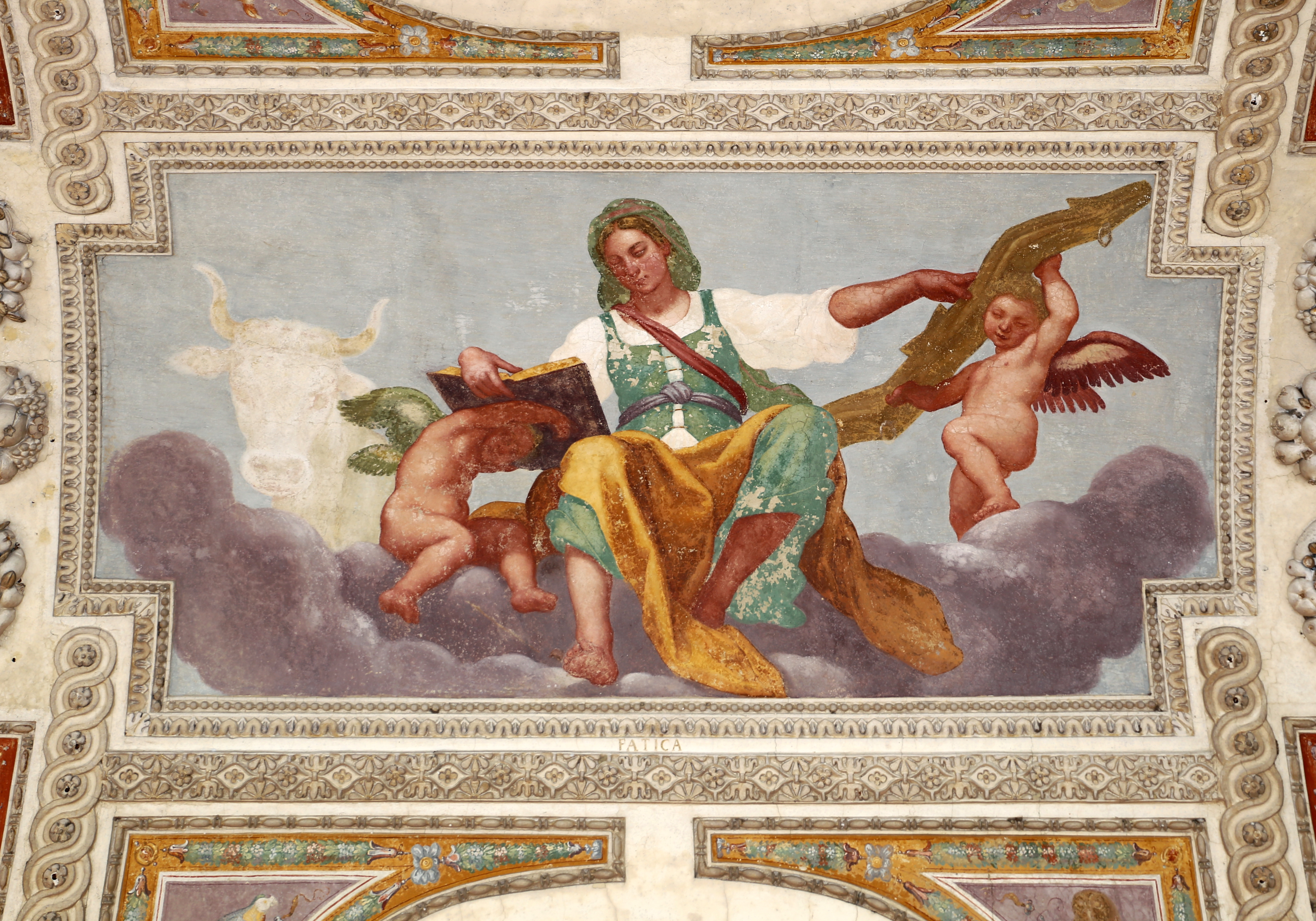 Medici Villa of Artimino - Loggia dei Paradisi